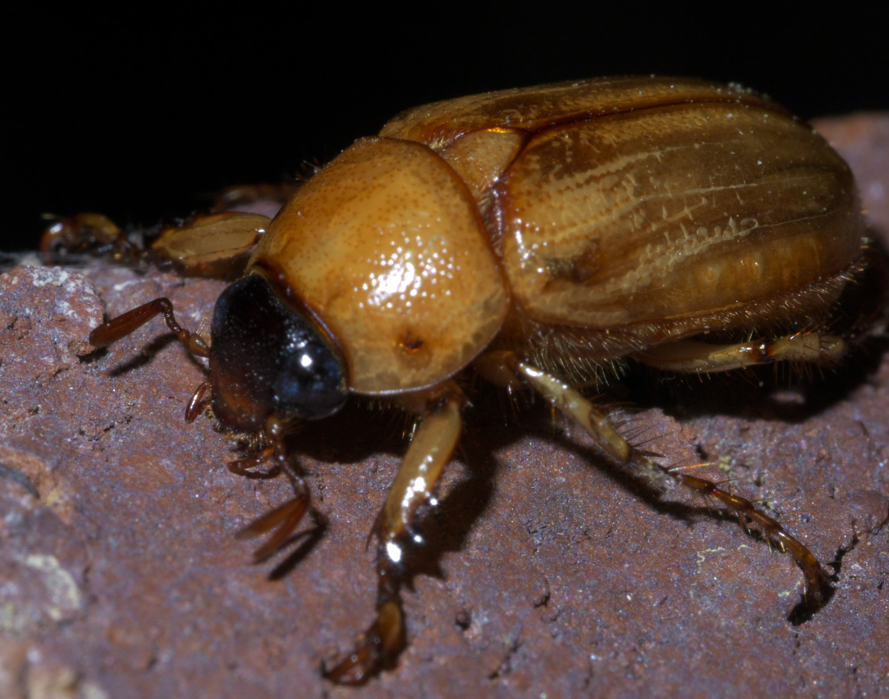 Cyclocephala, masked chafers, small june bug, ID Confidence: 98